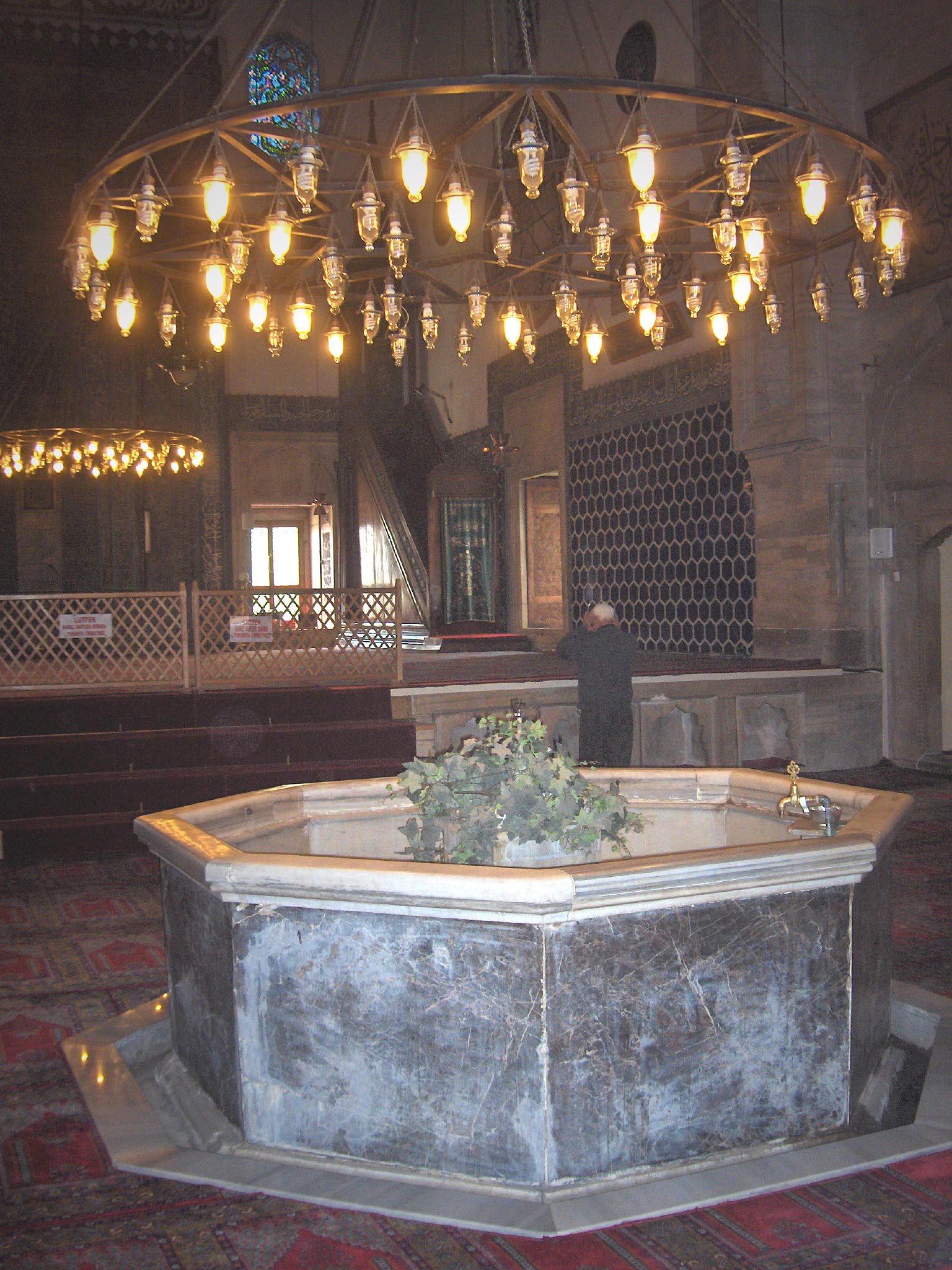 Ablution basin of the Yeşil Cami (Green mosque) of Bursa, Turkey